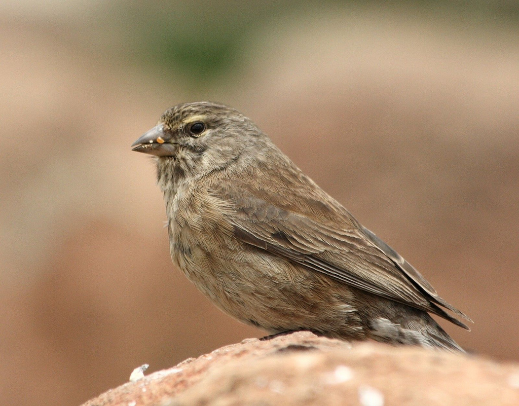 Female Drakensberg Siskin (Pseudochloroptila symonsi). Location: Top of Sani Pass, border of South Africa and Lesotho (photo taken on South African side).